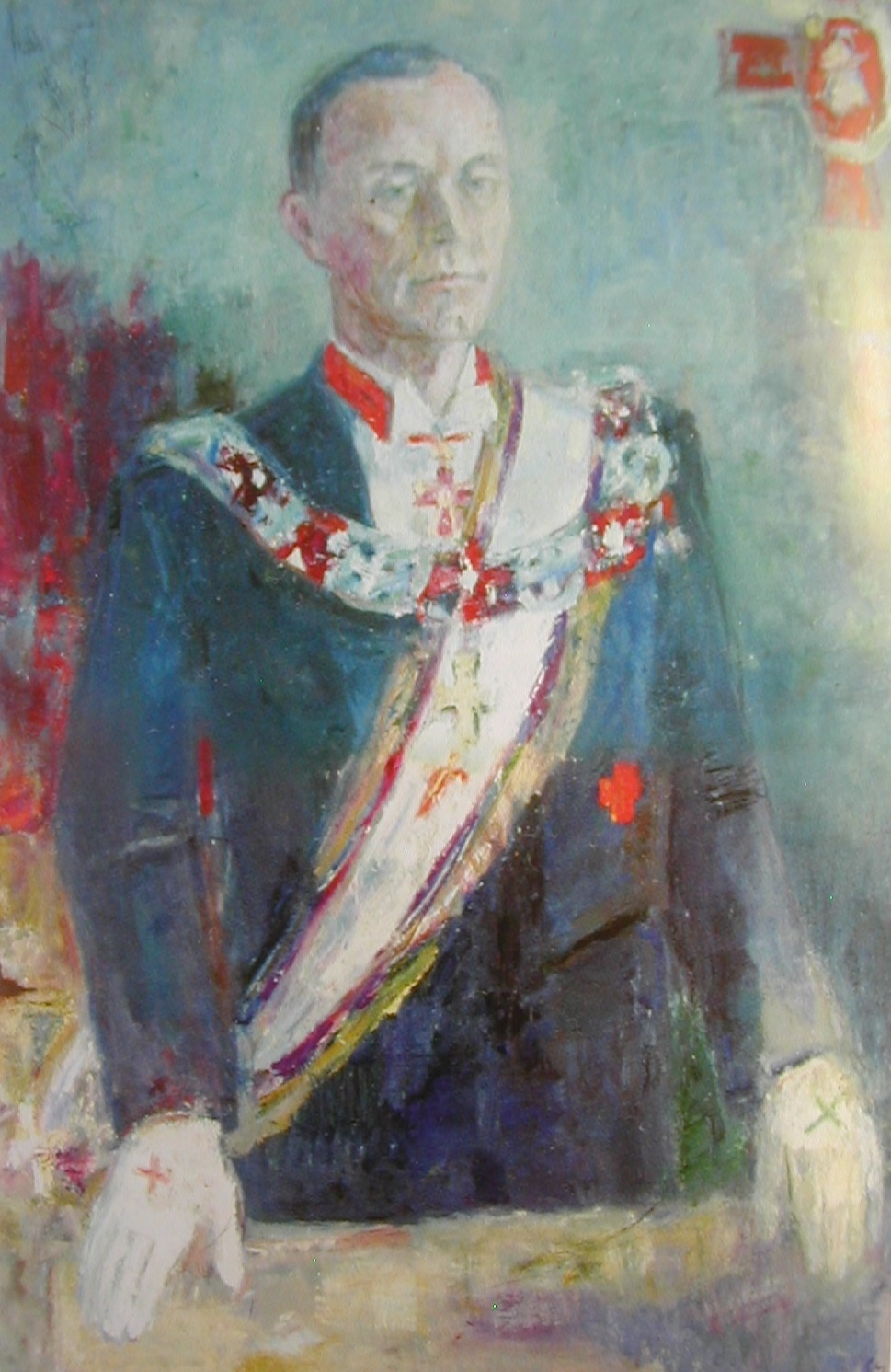 Bernhard Paus as the Grand Master of the Norwegian Order of Freemasons, painted by Agnes Hiorth